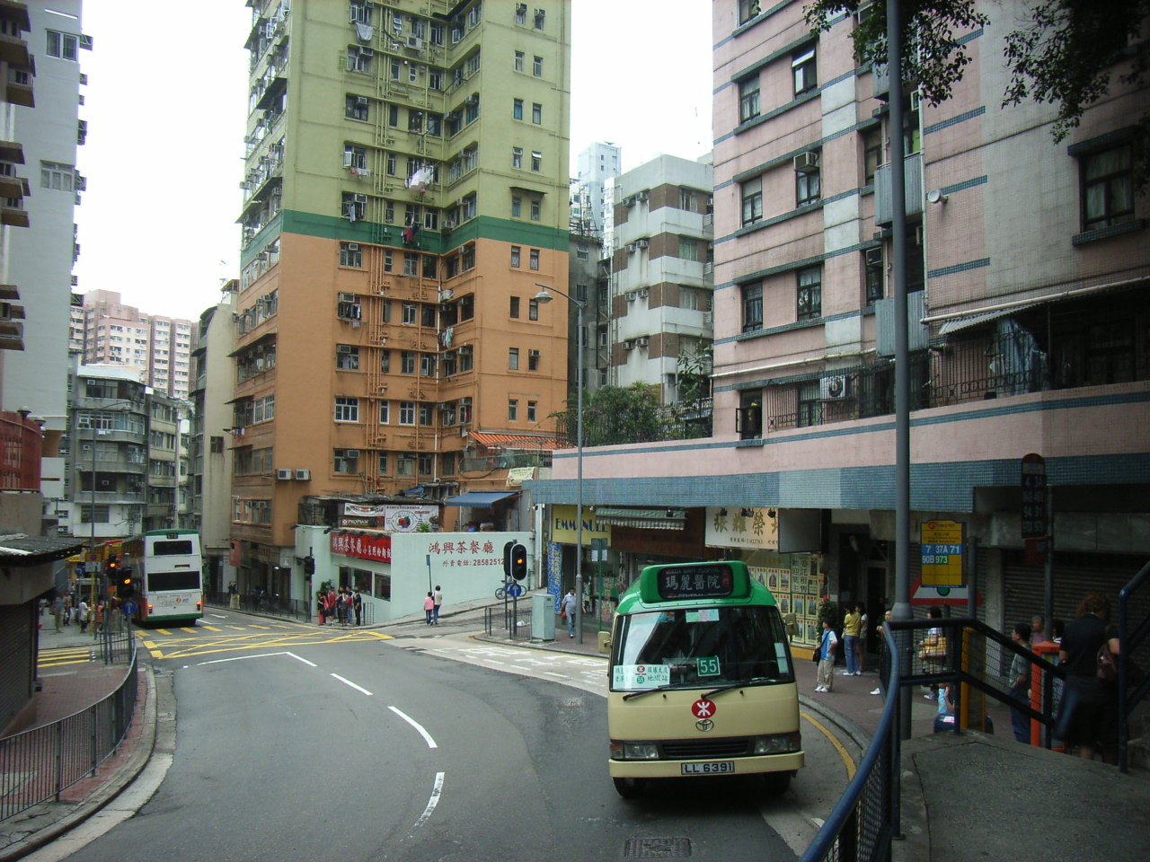 Pok Fu Lam Road, Sai Ying Pun, Hong Kong, seen from Li Sing Primary School. The crossing street is Third Street. Photography taken by PFL501